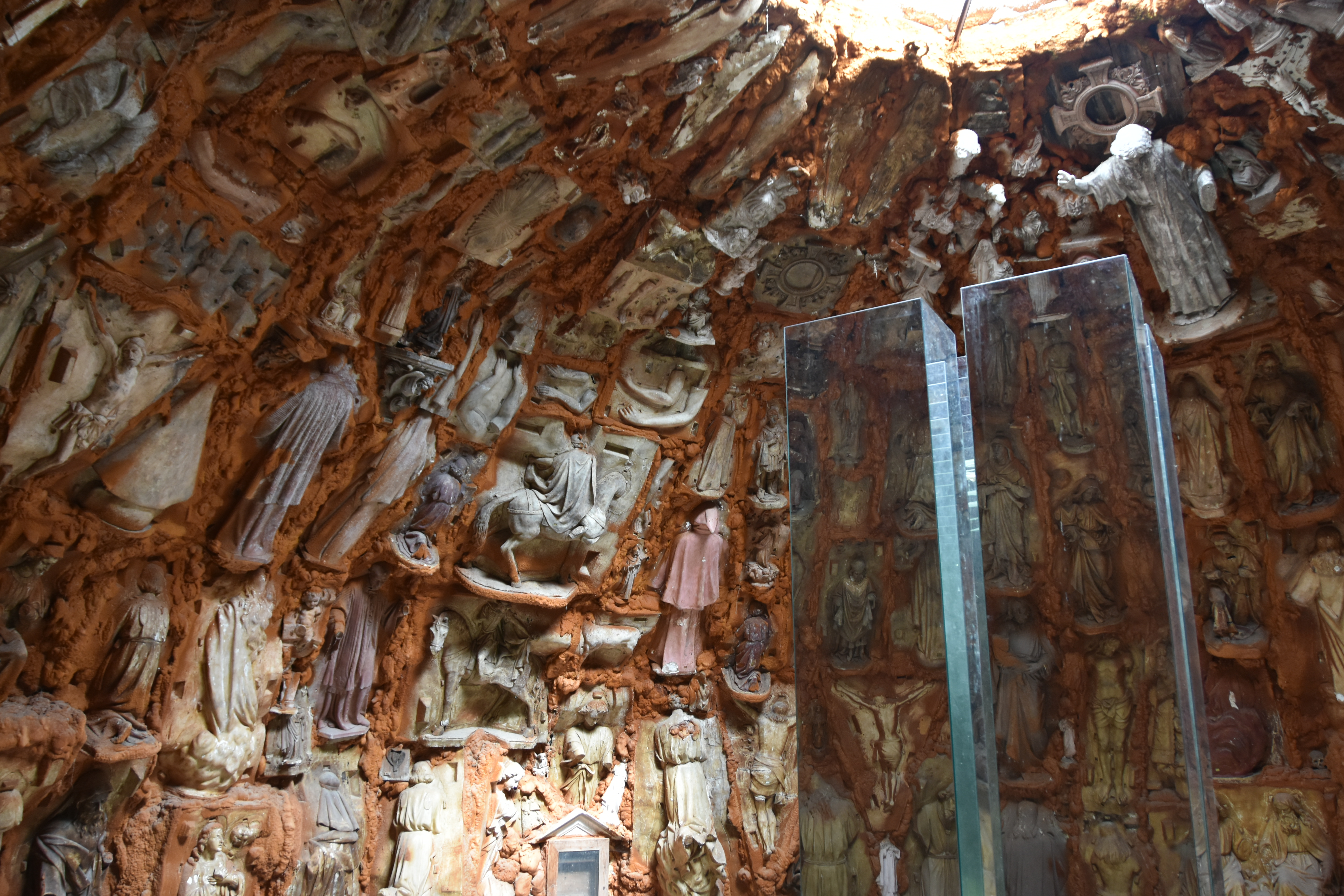 Can Ginebreda Forest (Bosc de Can Ginebreda). Sculpture park created by Xicu Cabanyes in Porqueres. Dome of the saints